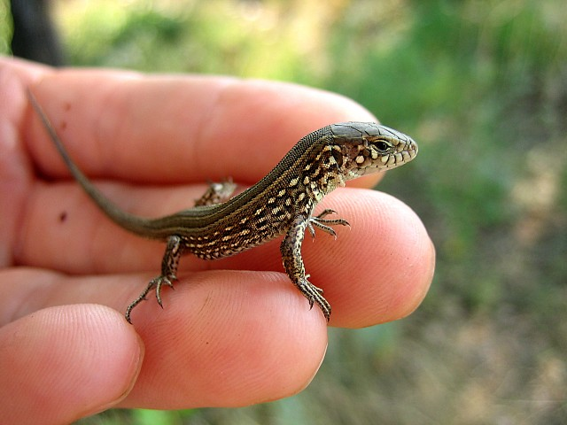 Sand Lizard from Kamyshin, Volgograd Oblast, Russia. Druzhinin Mikhail.